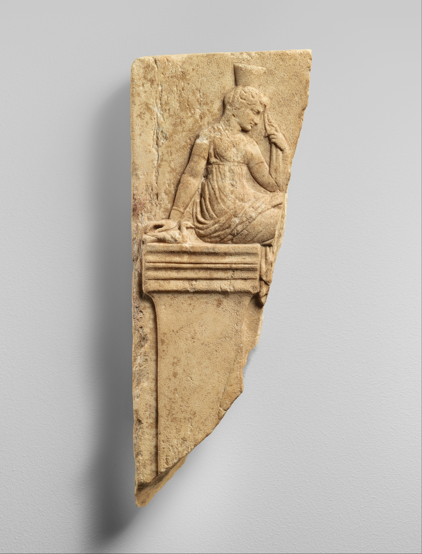 Roman; Relief fragment with Peitho; Stone Sculpture